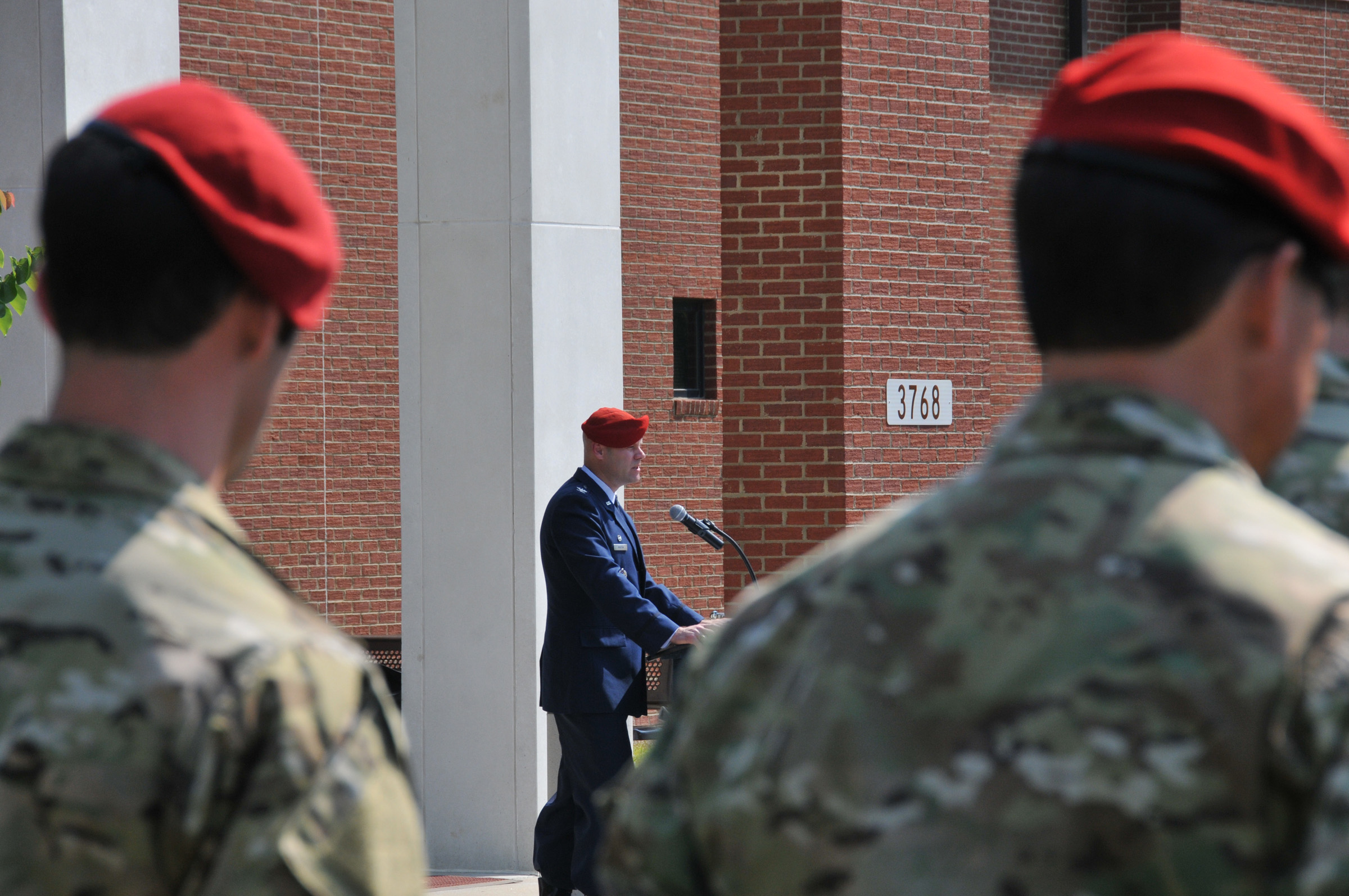 Col. Michael Martin, 724th Special Tactics Group Commander, seen between two combat controllers, was the guest speaker July 6 at a memorial dedication ceremony honoring Staff Sgt. Andrew Harvell at the Combat Control School at Pope Field, NC. (Air Force P Col. Michael Martin, 724th Special Tactics Group Commander, seen between two combat controllers, was the guest speaker July 6 at a memorial dedication ceremony honoring Staff Sgt. Andrew Harvell at the Combat Control School at Pope Field, NC. At the dedication, a plaque bearing SSgt Harvell's name was unveiled on the memorial in front of the school, and all military attendees peformed "memorial pushups" in honor of SSgt Harvell.